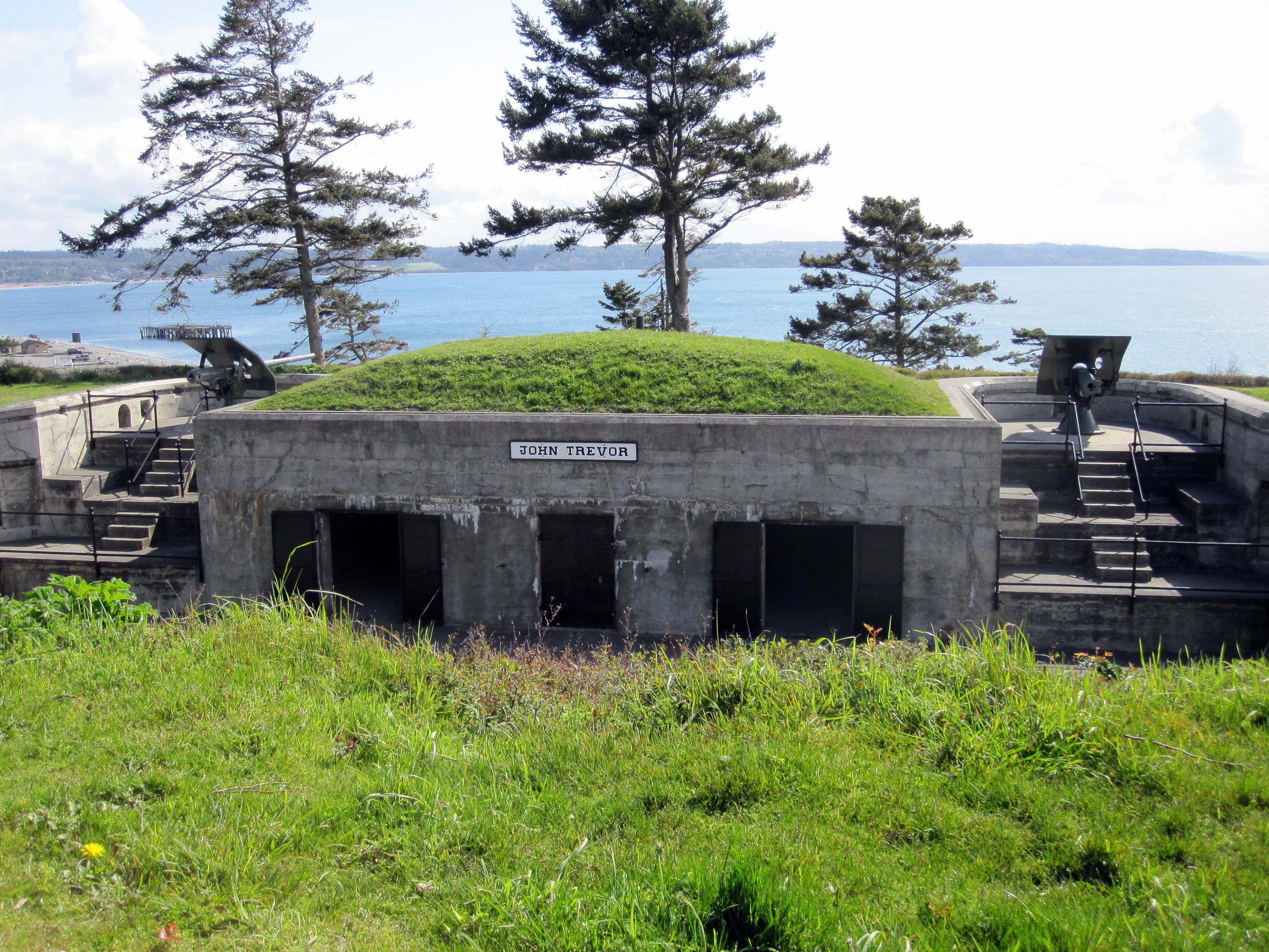 Battery Trevor at Fort Casey, Fort Casey State Park on Whidbey Island (WA)